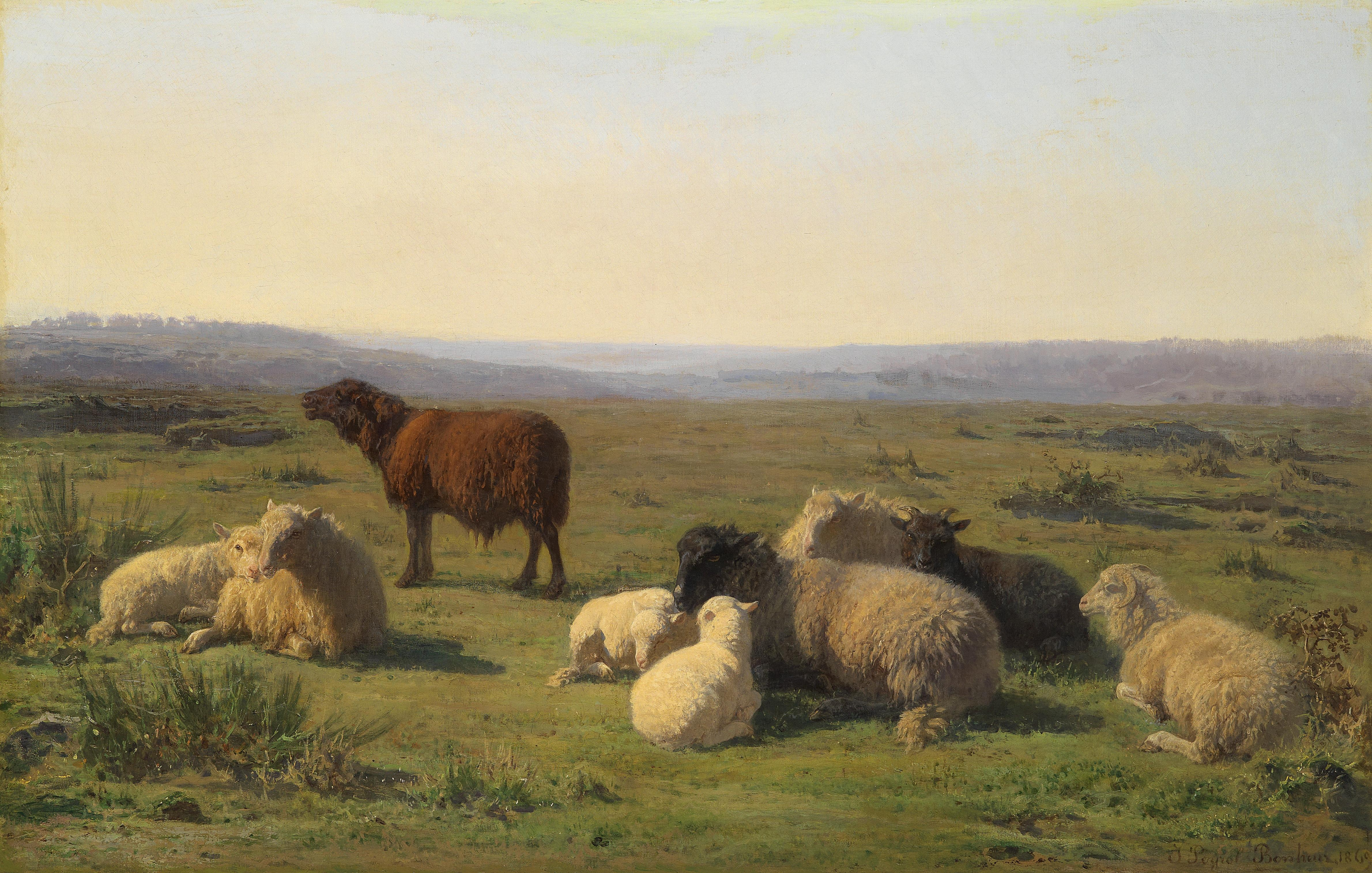 Sheep Resting in the Meadow by Juliette Peyrol Bonheur, signed, dated J. Peyrol Bonheur 1869